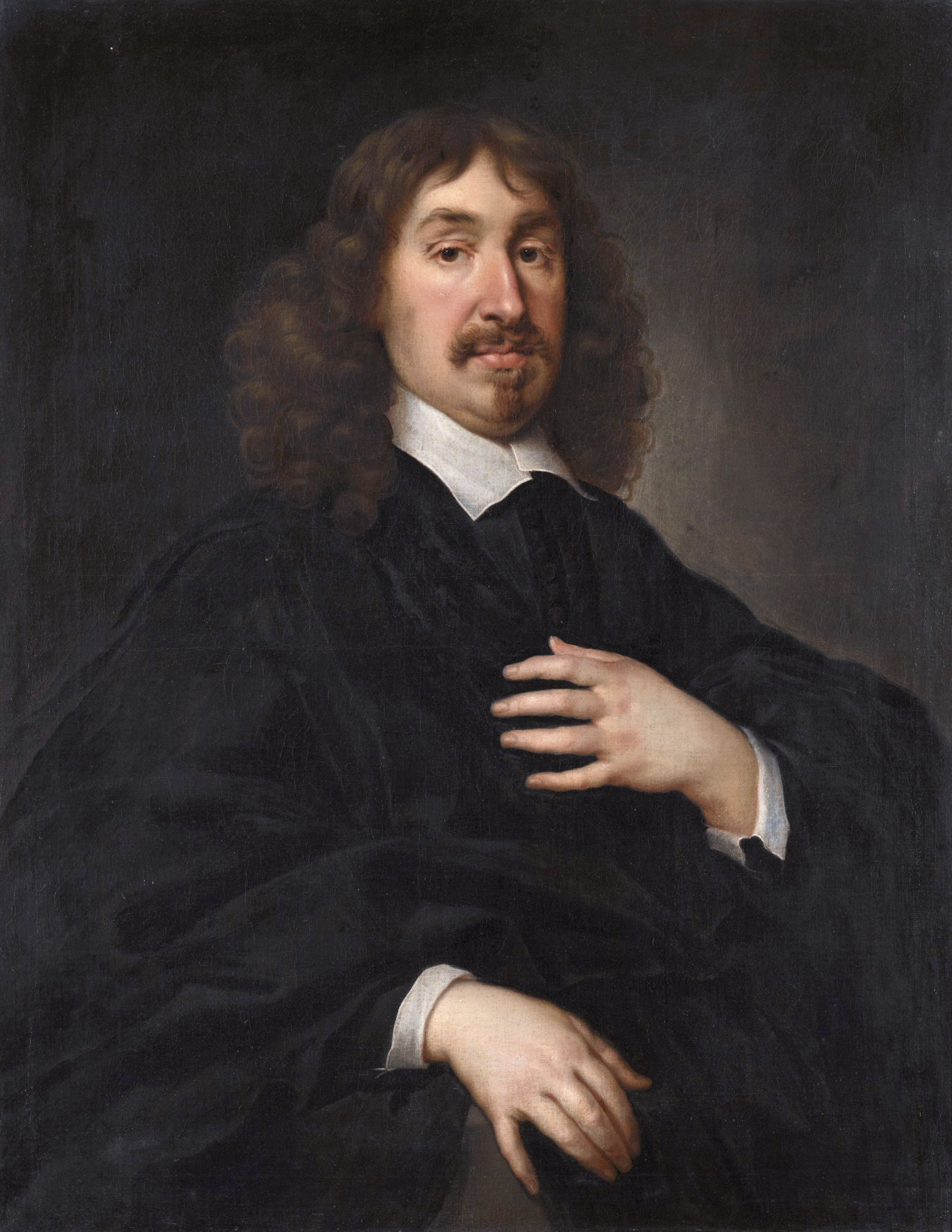 John Hamilton, 1st Lord Bargany (d. 1658) oil on canvas 98.5 x 76.5 cm